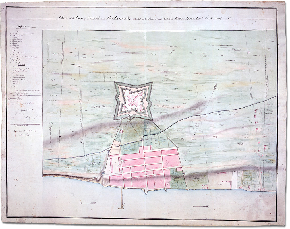 Plan of the Town of Detroit and Fort Lernoult, 1792. From the National Archives at